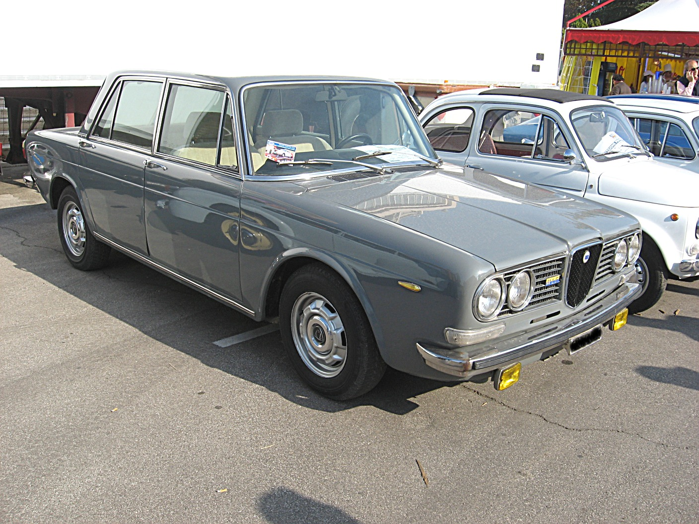 Subject: Lancia 2000 berlina Date:October 26th, 2008 Event: Auto e Moto d'Epoca 2008 Place/Country: Padova, Italy I release all rights in the public domain.